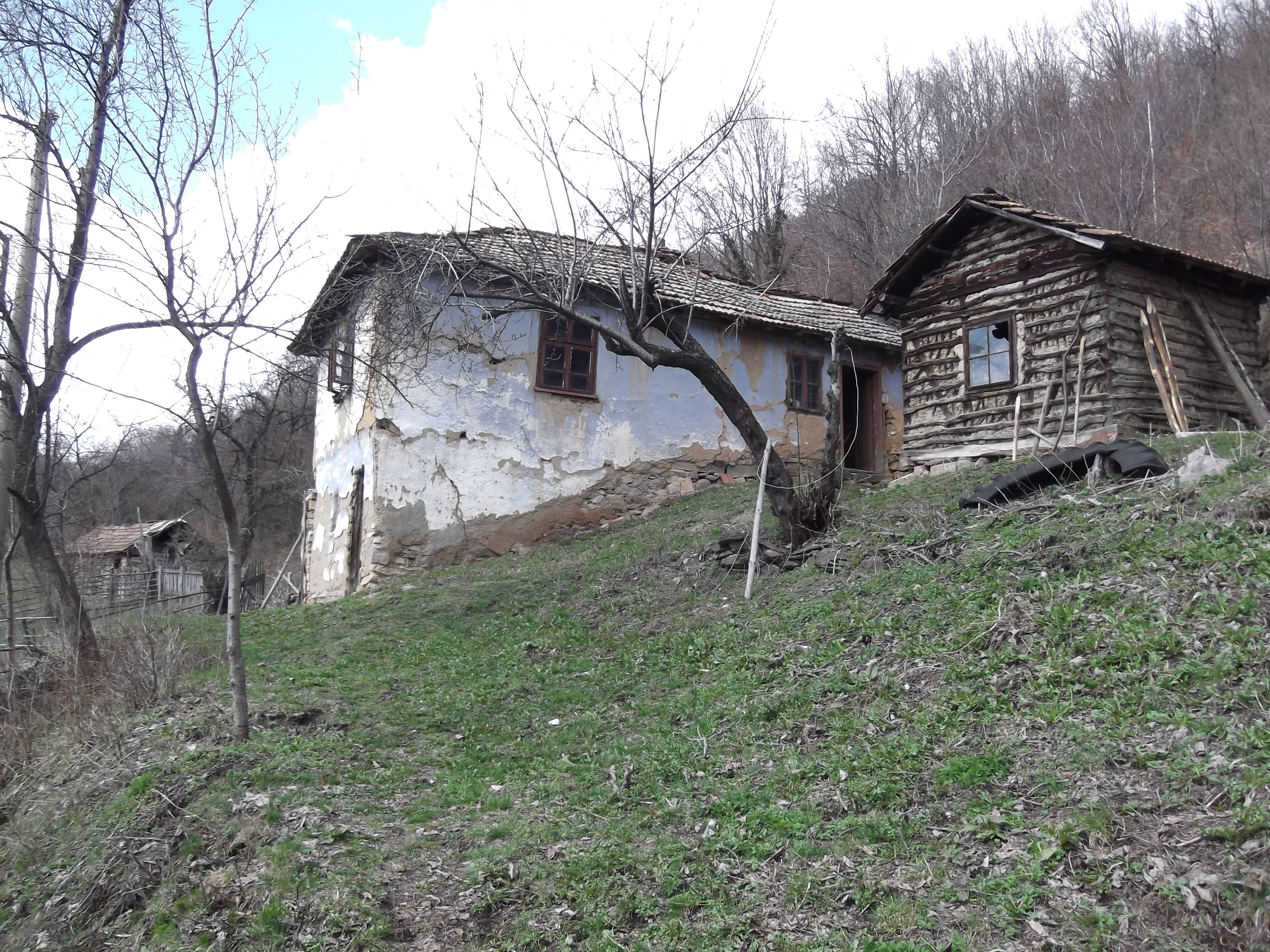 Houses in Padinata hamlet, part of Leskovdol village